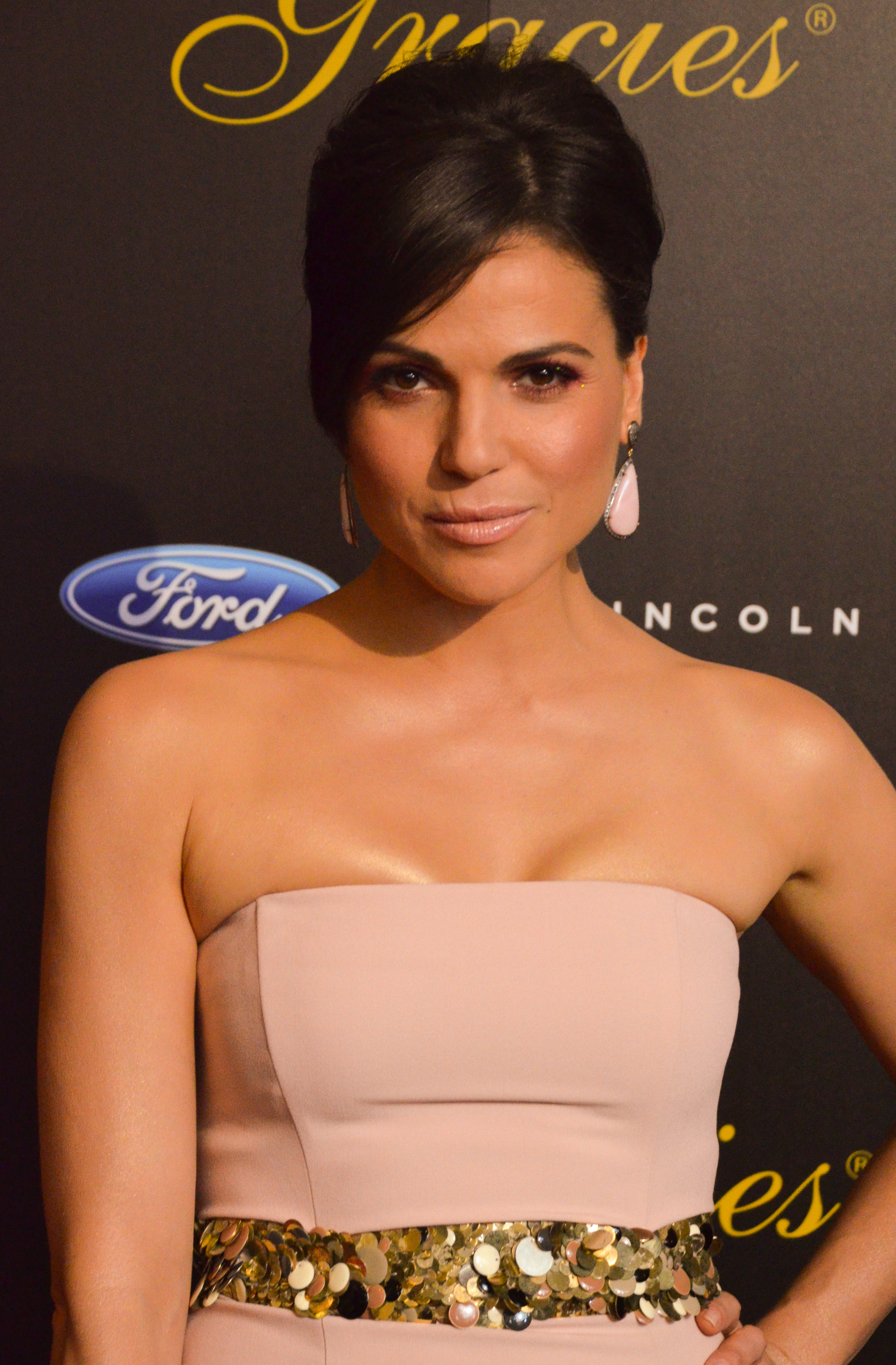 Lana Parrilla by Mingle Media TV